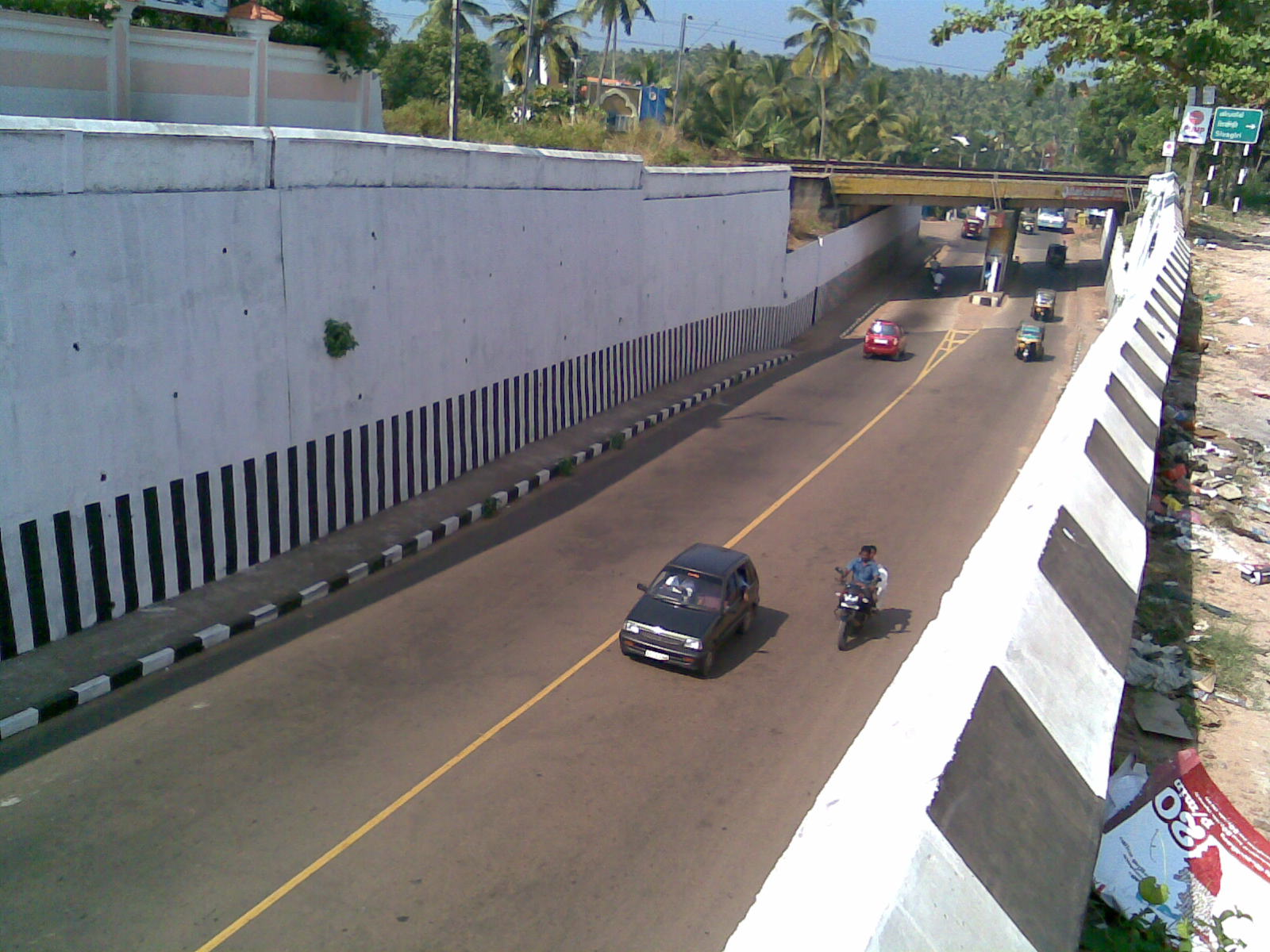 Varkala Underpass from Sivagiri Road